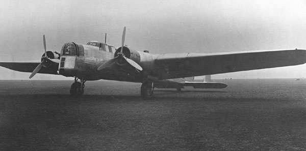 One of two Armstrong Whitworth Whitley bomber prototypes.